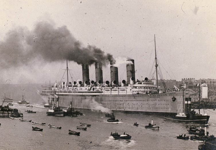 QSPS Mauretania passing Low Lights at the mouth of the Tyne on her maiden voyage Reference: TWAS: dx872/19 (Copyright) We're happy for you to share this digital image within the spirit of The Commons. Please cite 'Tyne & Wear Archives & Museums' when reusing. Certain restrictions on high quality reproductions and commercial use of the original physical version apply though; if you're unsure please . To purchase a hi-res copy please quoting the title and reference number.